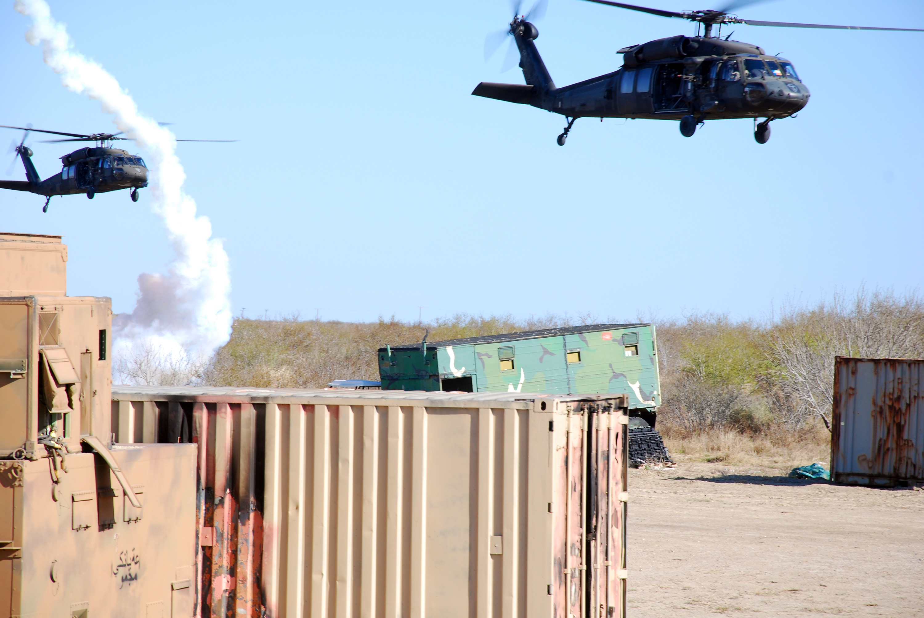 Two Texas Army National Guard Uh-60 Black hawks conduct training missions during a Red Flag exercise March 2-6, 2011. The Black hawks were preparing to insert the Czech/US Multi-National Assault Force near the enemy village, amid heavy surface to air fire.